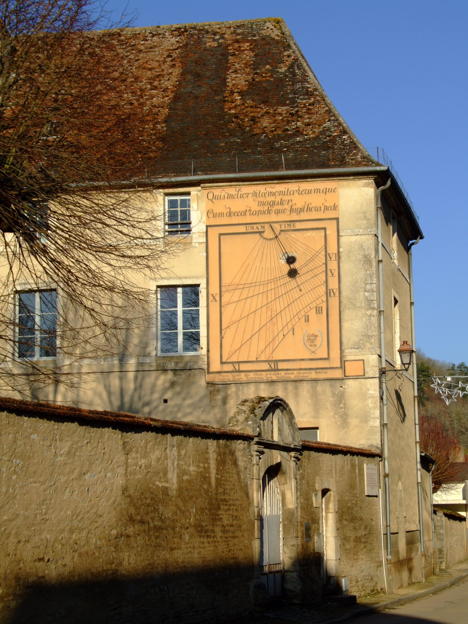 Noyers-sur-Serein, Yonne, Burgundy, FRANCE